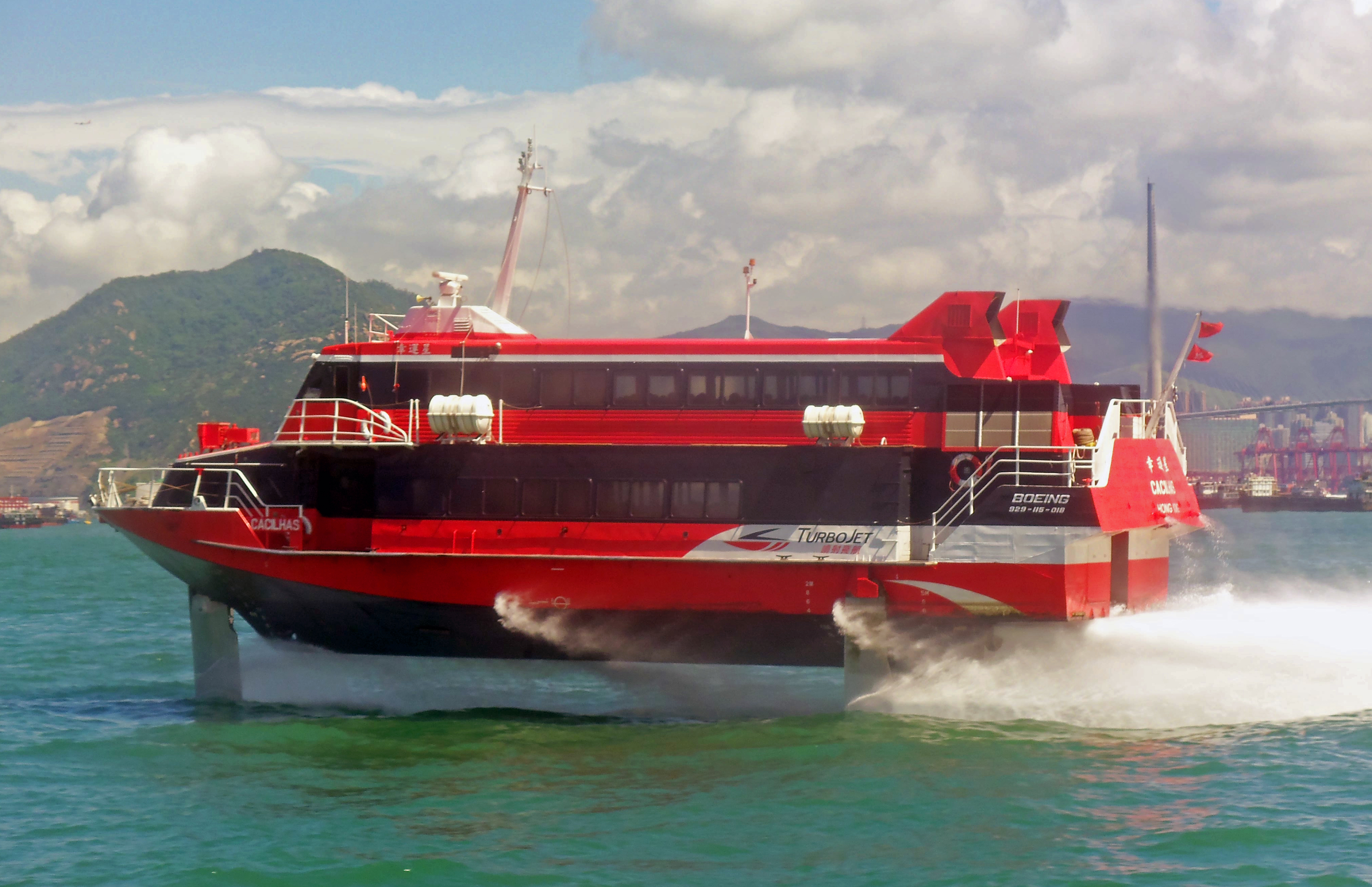 TurboJet hydrofoil Cacilhas in Hong Kong harbor, seen from a Hong Kong ferry as it passes by